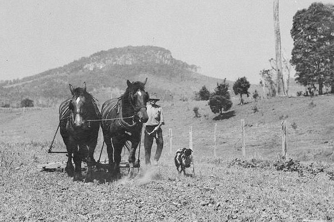 Farmer with his horse team ploughing a paddock. His cattle dog is keeping him company.